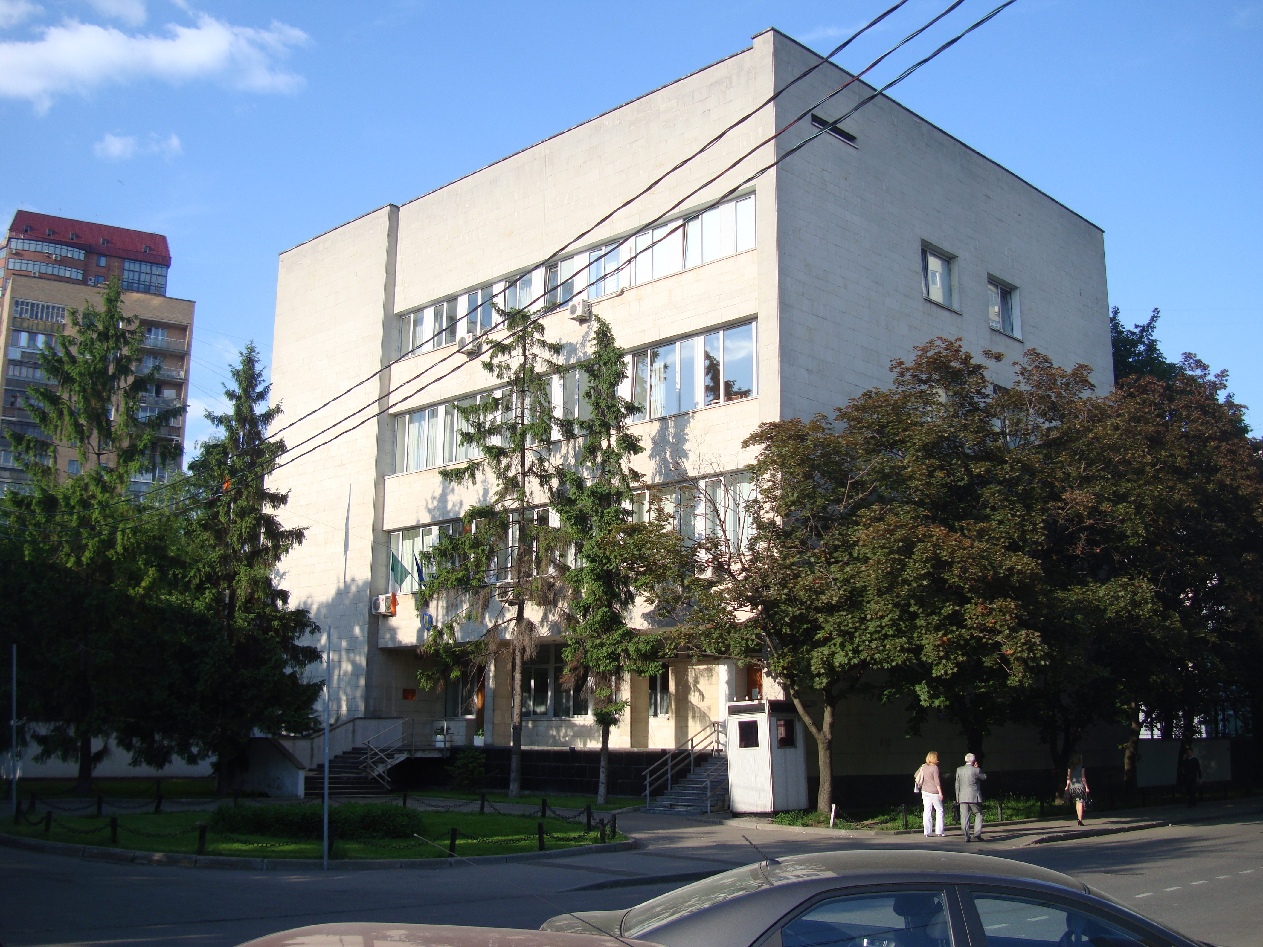 5 Grokholsky Lane, Meshchansky District, Moscow, Russia. Embassy of Ireland.